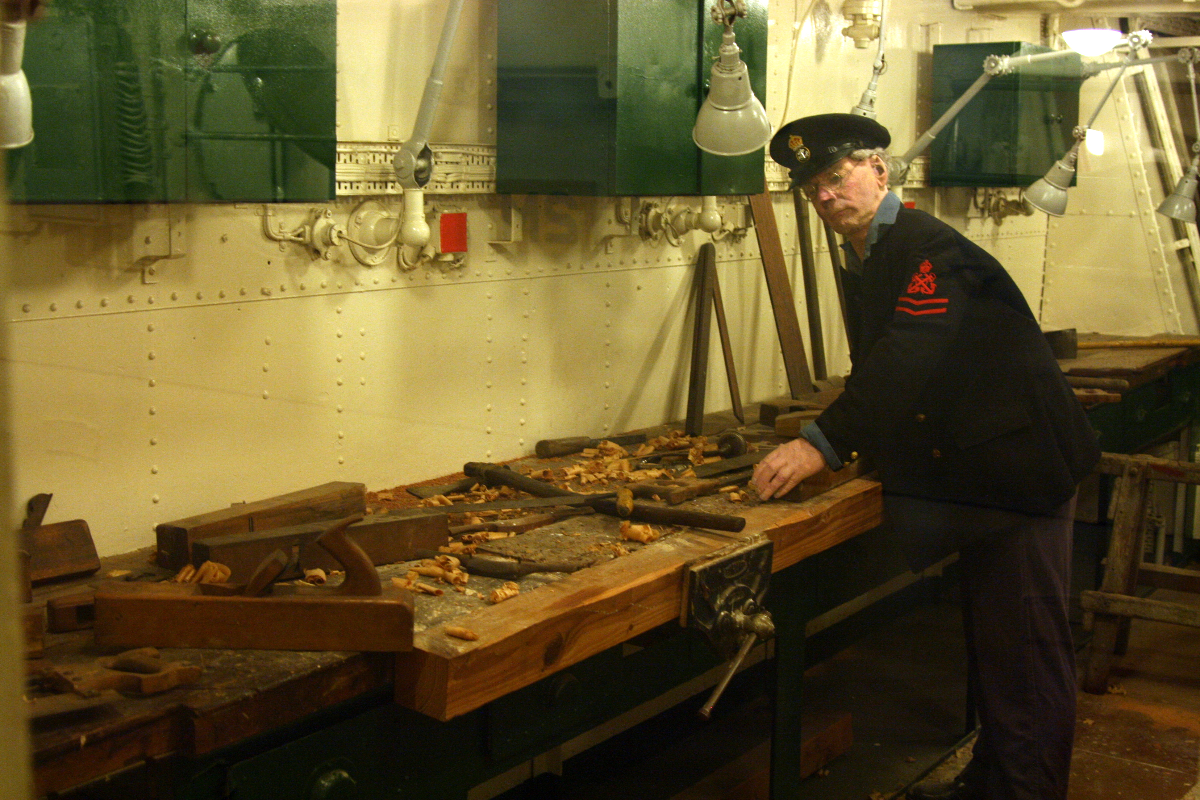 Carpenter's workshop on HMS Belfast